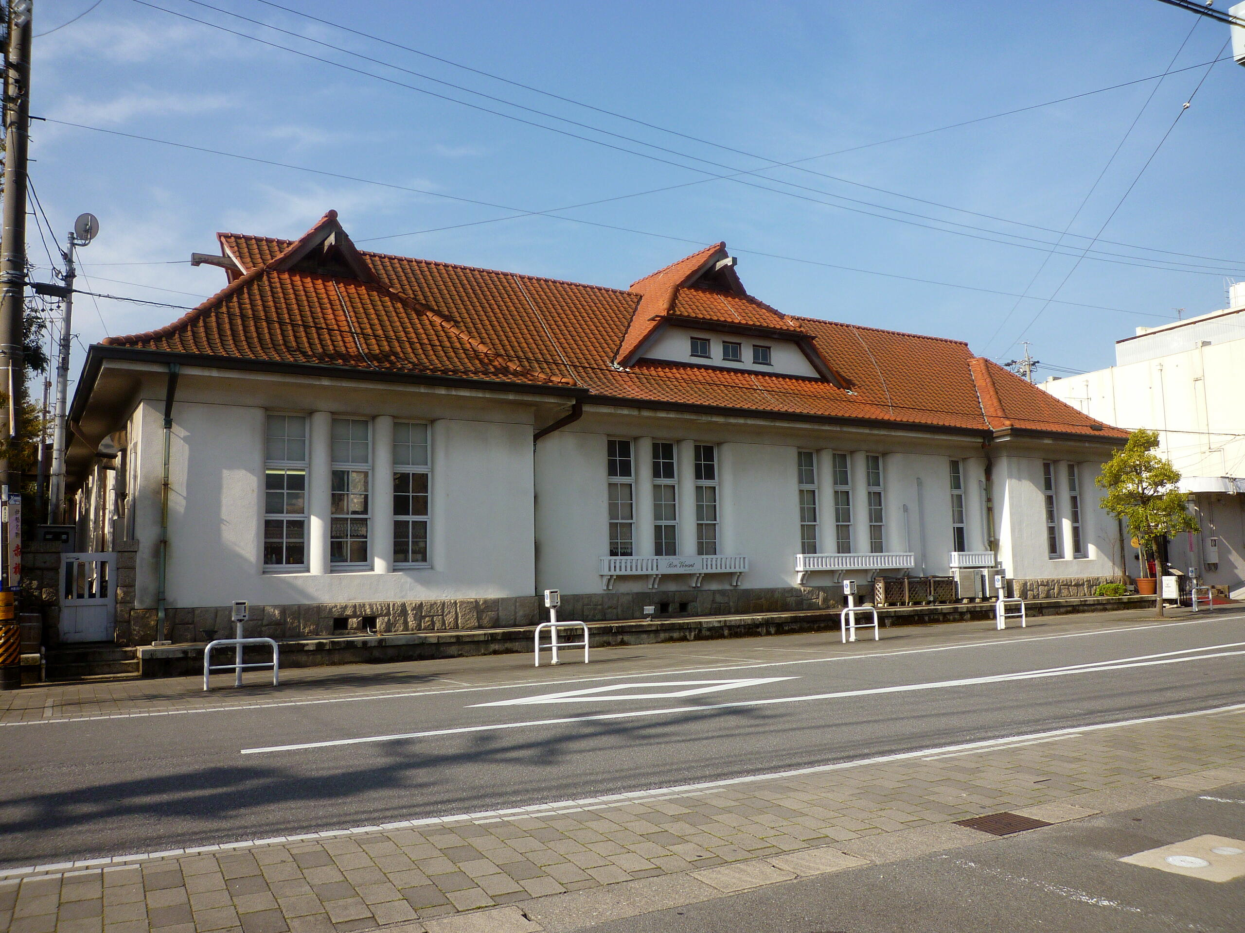 Old building of the "Yamada Post Office Telephone Branch" in Honmachi, Ise City, Mie Prefecture, Japan. This is a building built in 1923. This building was the first "Yamada telegraph telephone office".